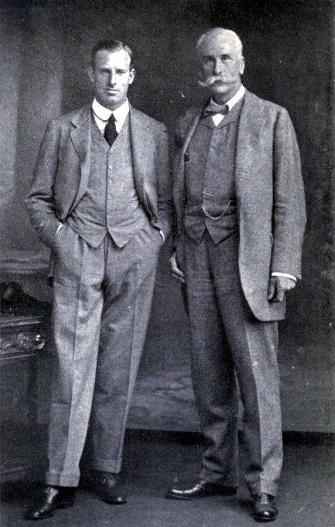 Anthony Wilding and C. T. Craig, his boss at Henderson, Craig & Co.